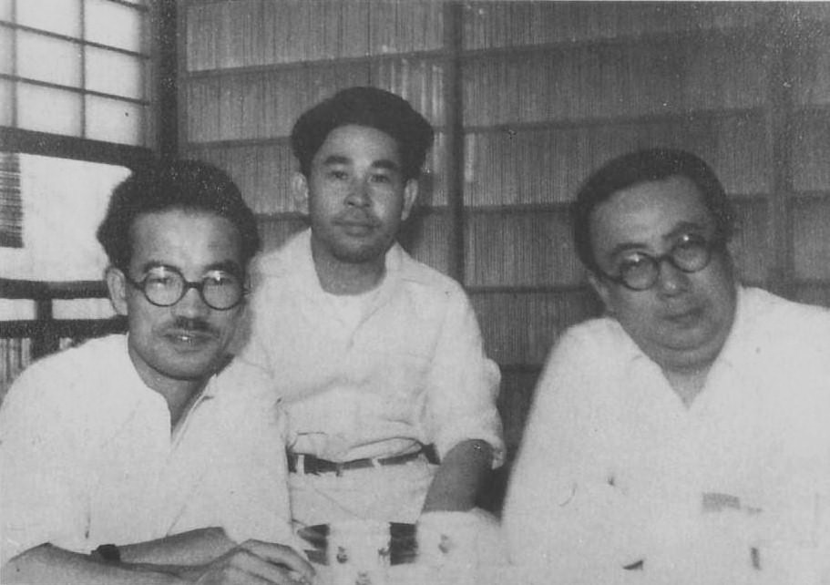 Entatsu Yokoyama (left), Minoru Akita (center), Roppa Furukawa (right).